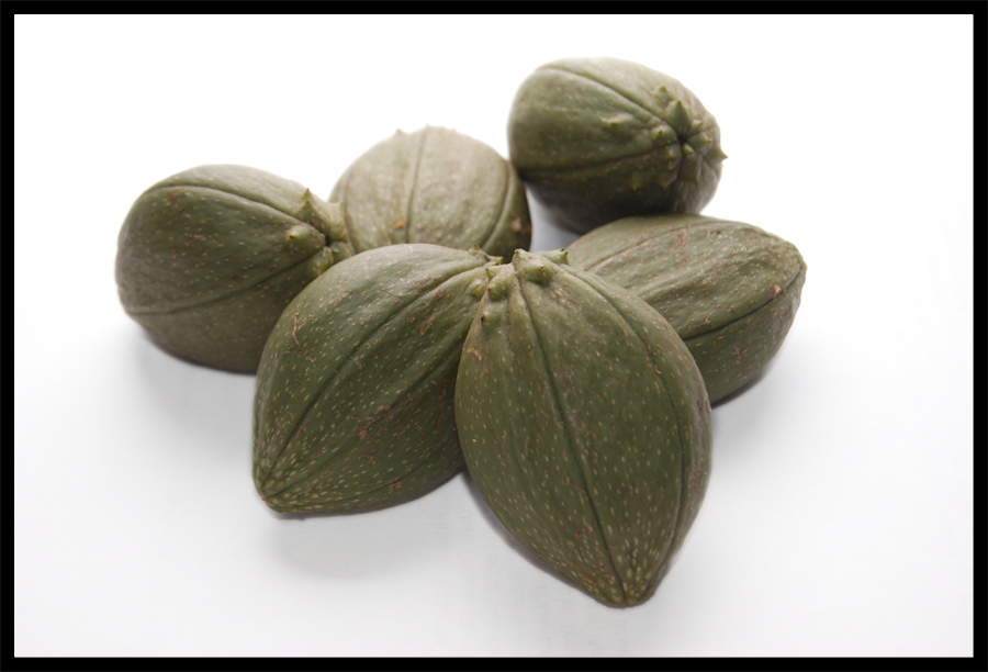 Tacaco (Sechium Tacaco) is a crawling vine that grows in tropical regions. It produces a small green football shaped vegetable that´s edible. You boil them for about 10 minutes, peel off the skin, and cut it half. Don´t eat the pit, BTW, it´s bitter as hell. SB600 from top, at 1/4 power. Shot in a strobist lunch box , lined with typing paper, same technique as the cake photos for Bootcamp II. (Non commercial use only)